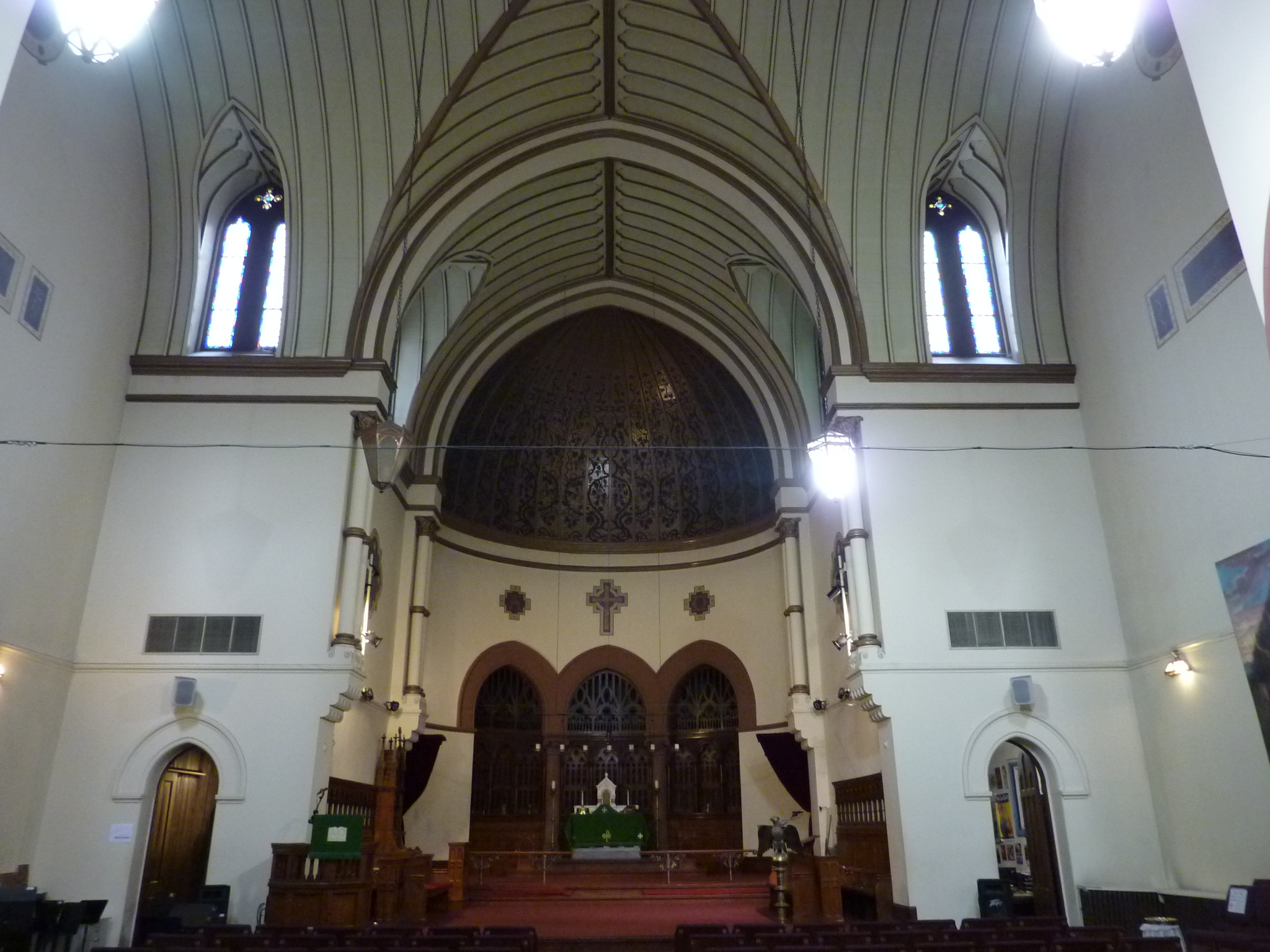 Lutheran Church For All Nations